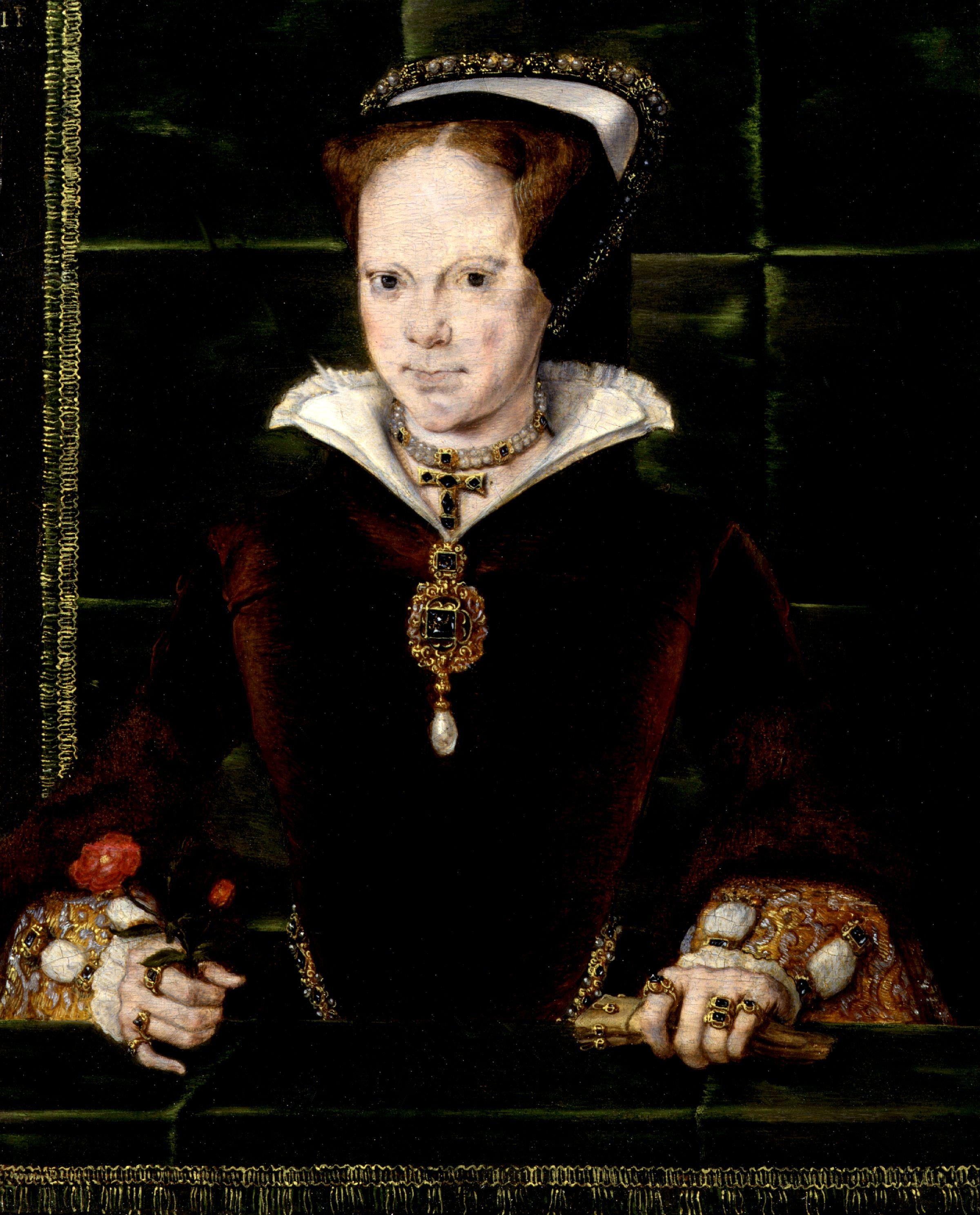 Painting of Mary I, Queen of England and Ireland. She is wearing a pendant with a large pearl, a gift from king Philip II of Spain on the occasion of their marriage in 1554. The pearl is named 'La Peregrina' (the Wanderer) and was last owned by Elizabeth Taylor. When Taylor and her husband Richard Burton learned the National Portrait Gallery did not posess a portrait of Mary I yet, they assisted in the purchase of this painting.